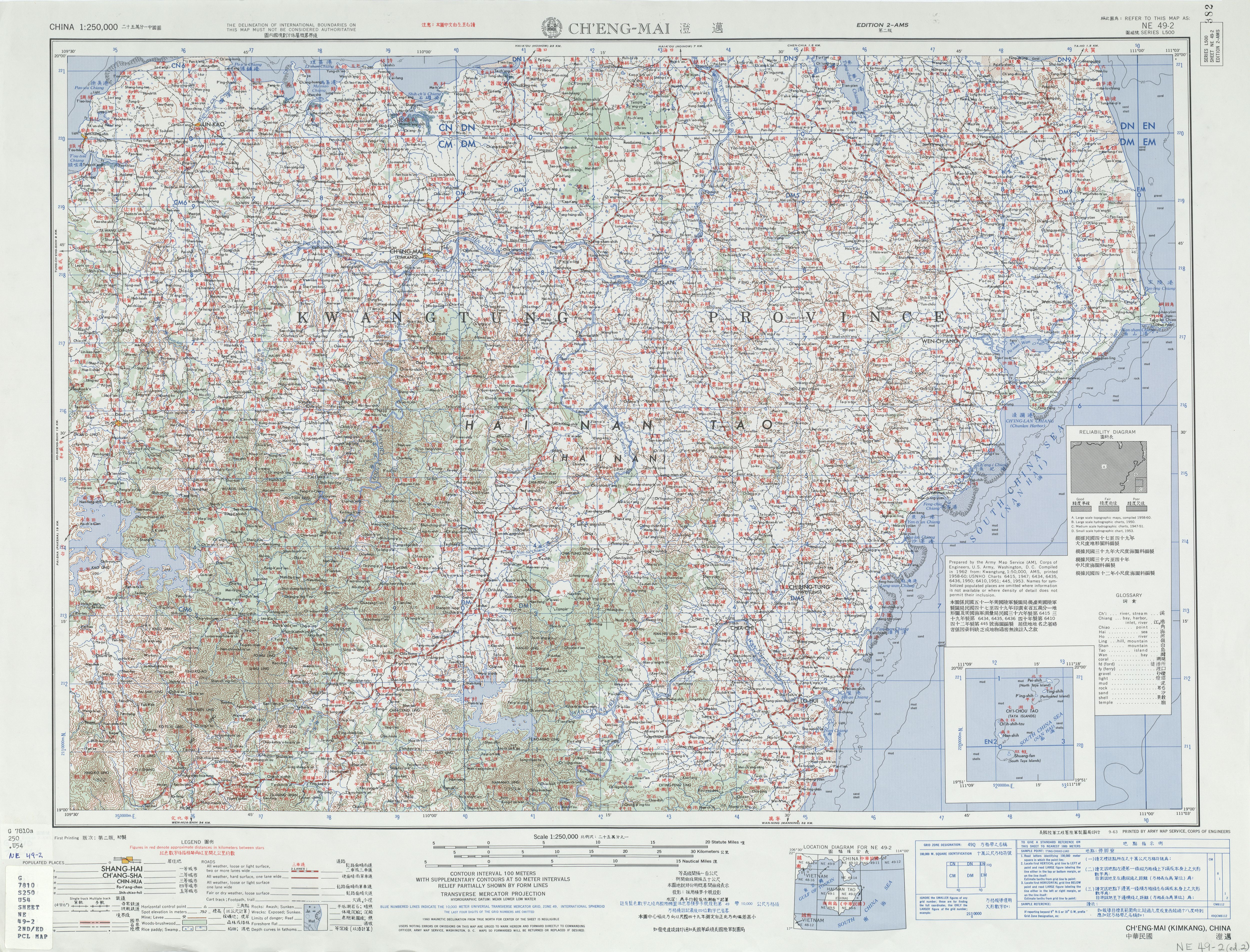 Map of Chengmai (Ch'eng-mai, Kimkang), Hainan area